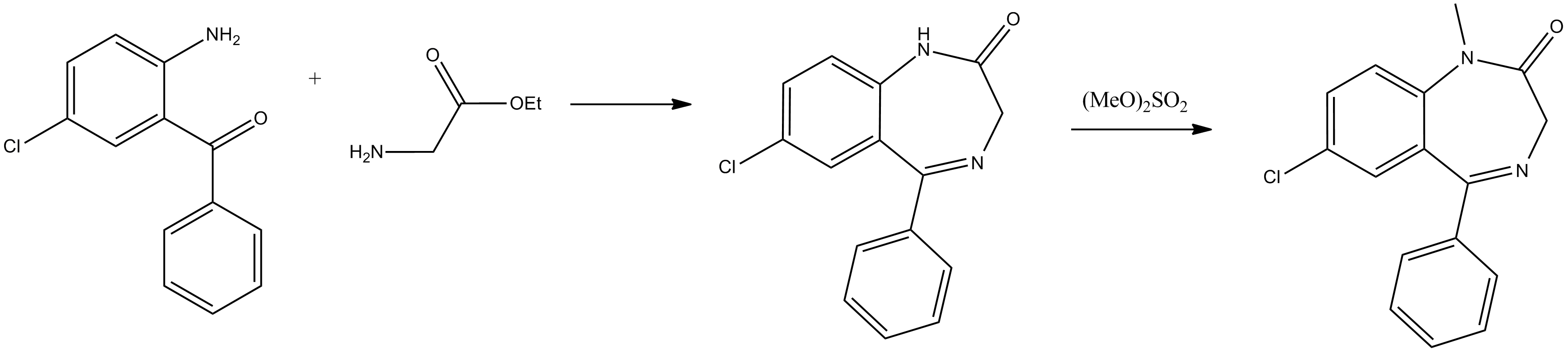 A synthetic scheme for the production of diazepam is disclosed.